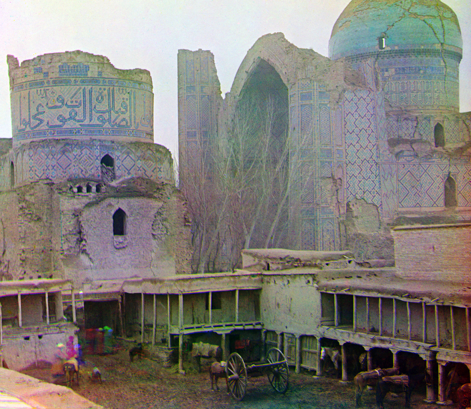 A photograph of the Bibi-Khanym Mosque, Samarkand, Uzbekistan (1907).